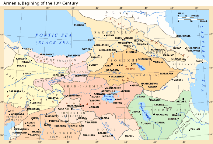 Armenia, begining of the 13th Century.